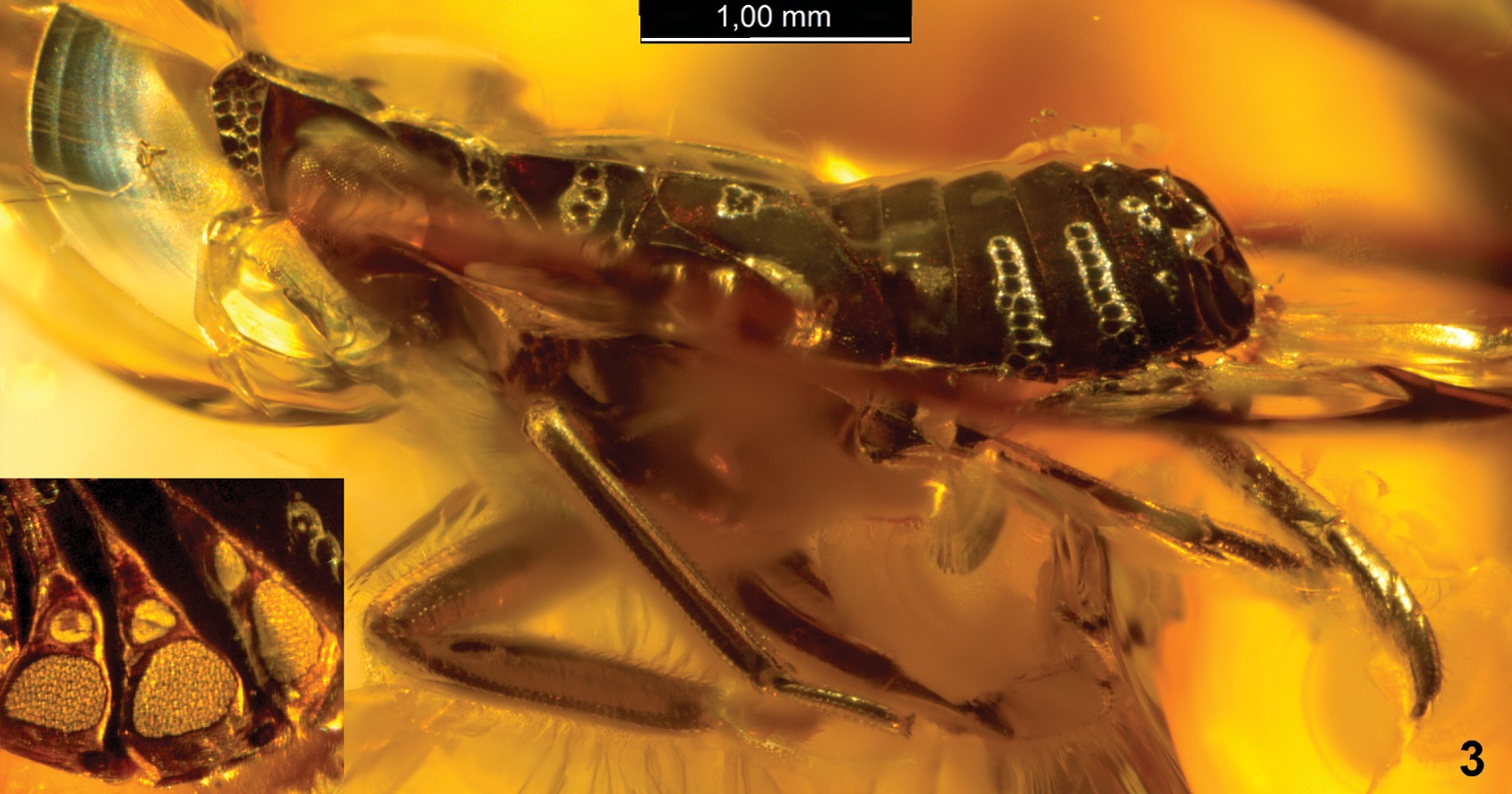 Alicodoxa rasnitsyni gen. et sp. n. (Orthopagini), 4th instar nymph, Rovno amber: 3 lateral view (all to same scale); inset, wax plates of the right side, enlarged.